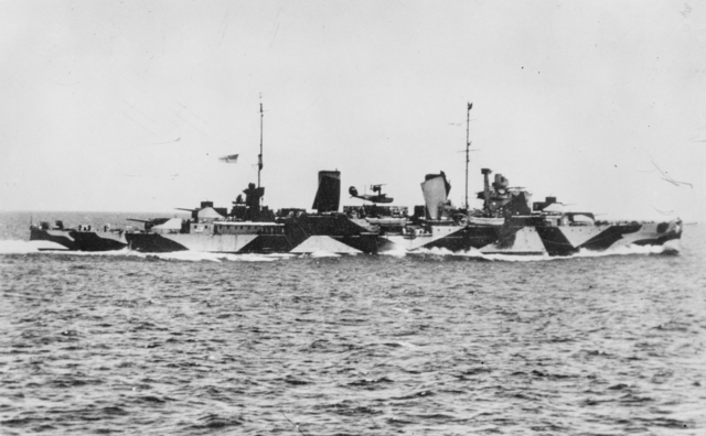 The Royal Australian Navy light cruiser HMAS Perth (D29) in 1942. The ship’s camouflage scheme has been altered, the sweeping curves of her original scheme giving way to a more angular design. The colours appear to be the same two greys, 507A (the darker colour) and 507C. Anti aircraft guns have been added to the crowns of B and X turrets. The catapult, with a Seagull V aircraft, has been reshipped on its turntable between the funnels.